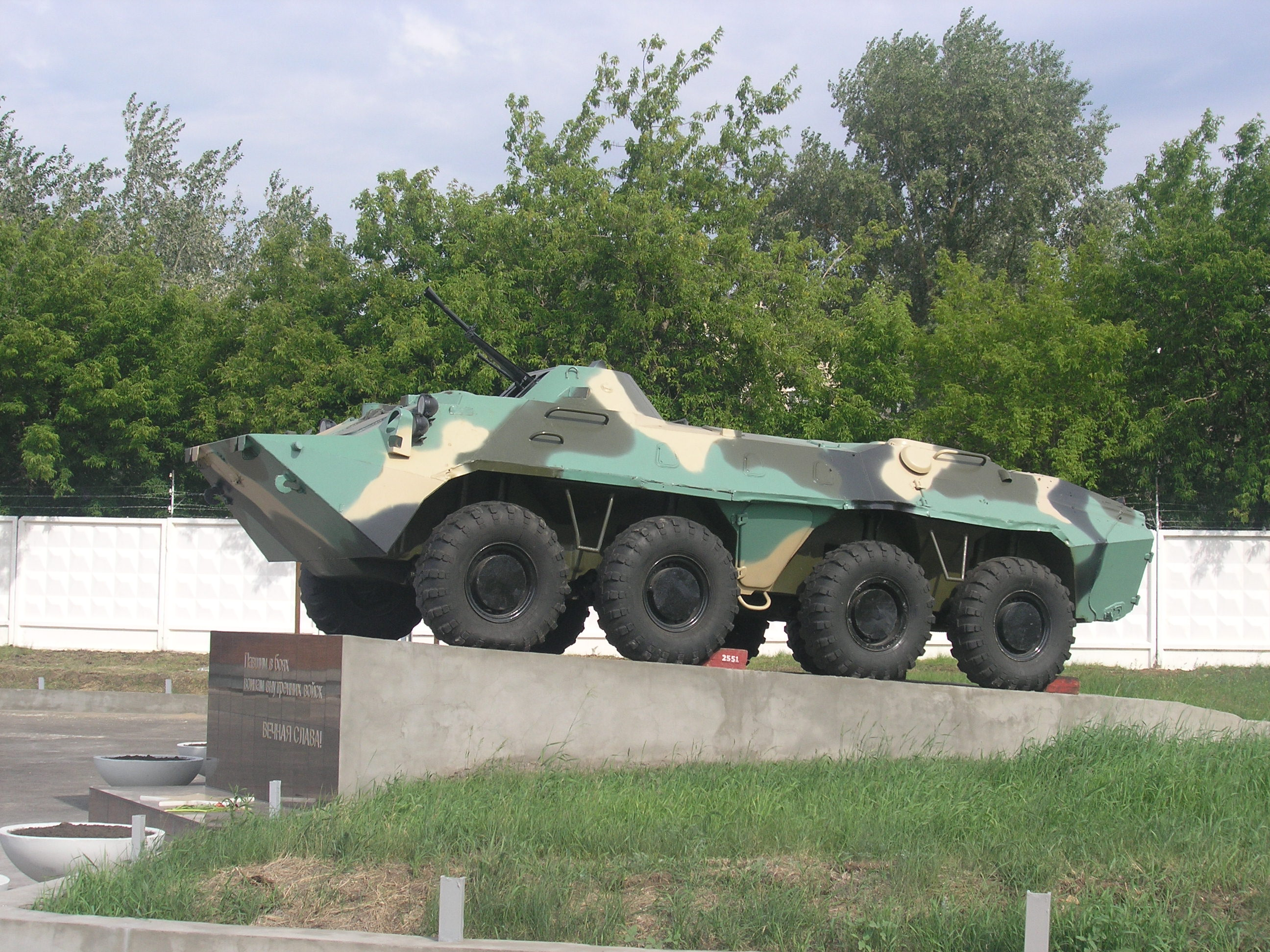 BTR-70, memorial in Togliatti